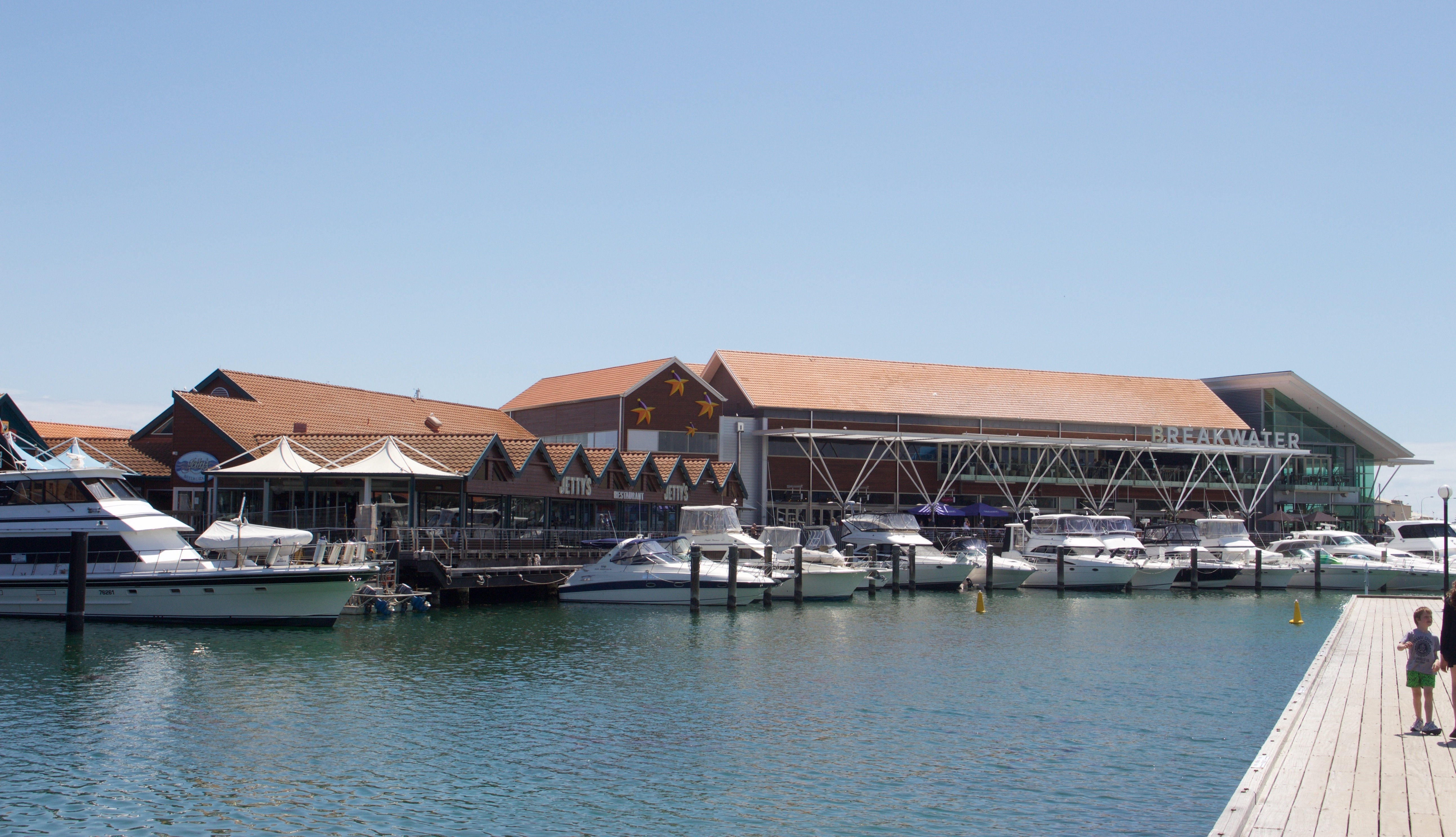 Restaurants and Promenade at Hillary's Boat Harbour. Hillary's Boat Harbour is located in Perth, Western Australia